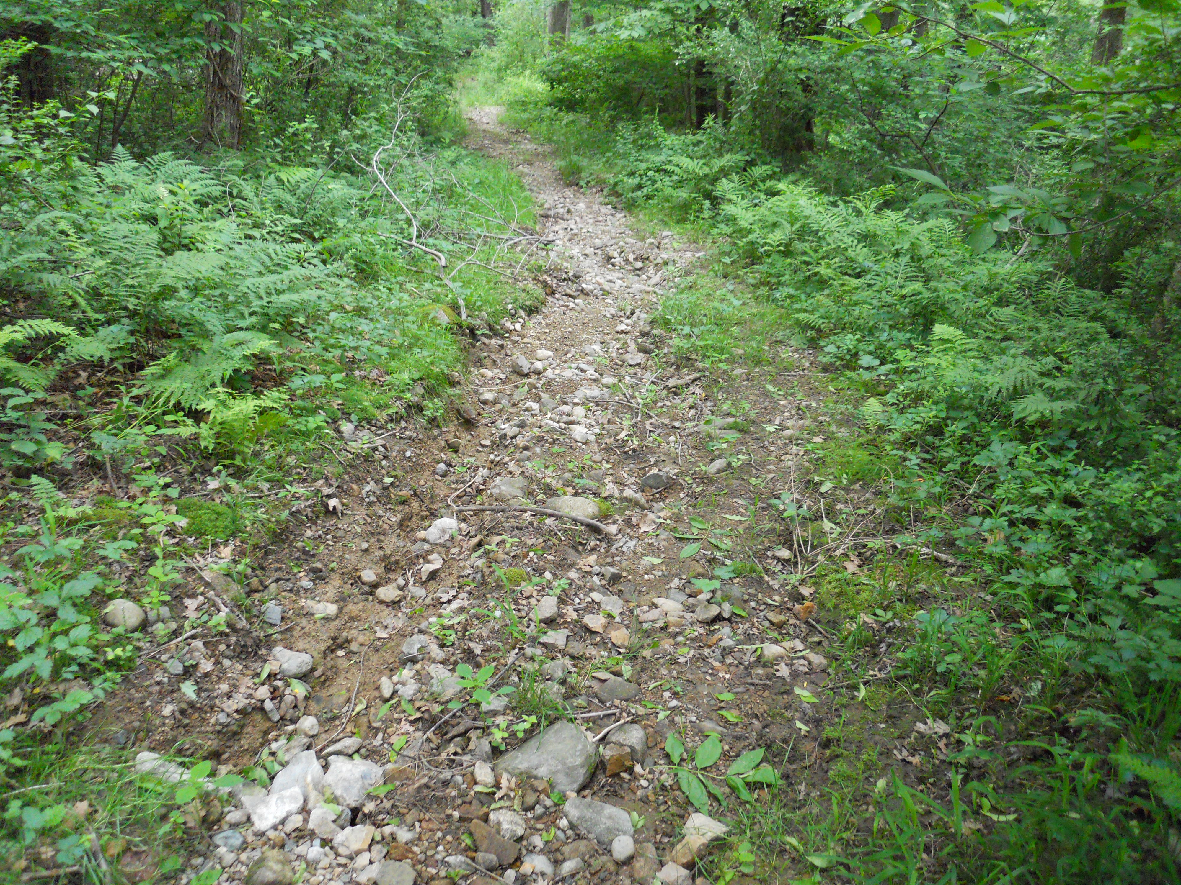 Erosional trail damage on a vertical trail to Moon Hill, Bradley Palmer State Park, MA. The trail is closed.